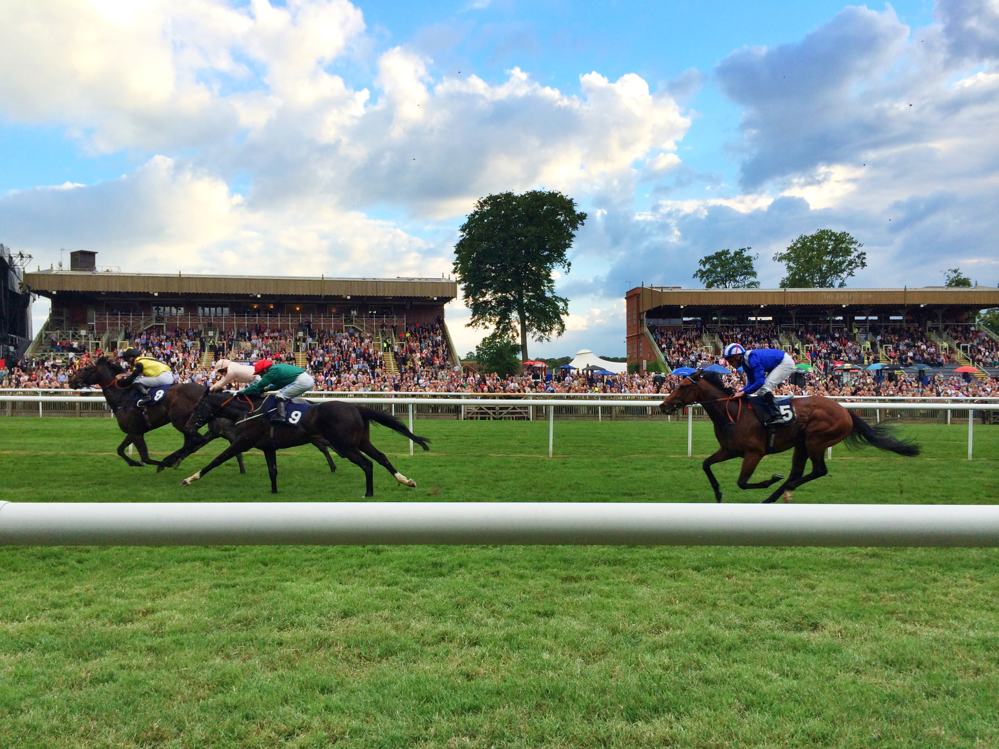 Tarrafal (9), Pactolus (8) and Iftaar (5) 2014 Newmarket July